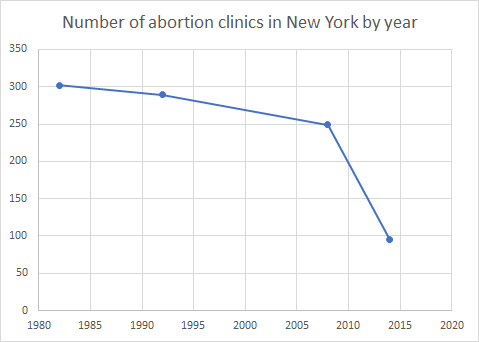 Number of abortion clinics in New York by year. Data is from articles linked at